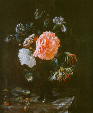 Still Life with flowerslabel QS:Len,"Still Life with flowers"label QS:Lnl,"Stilleven met bloemen"